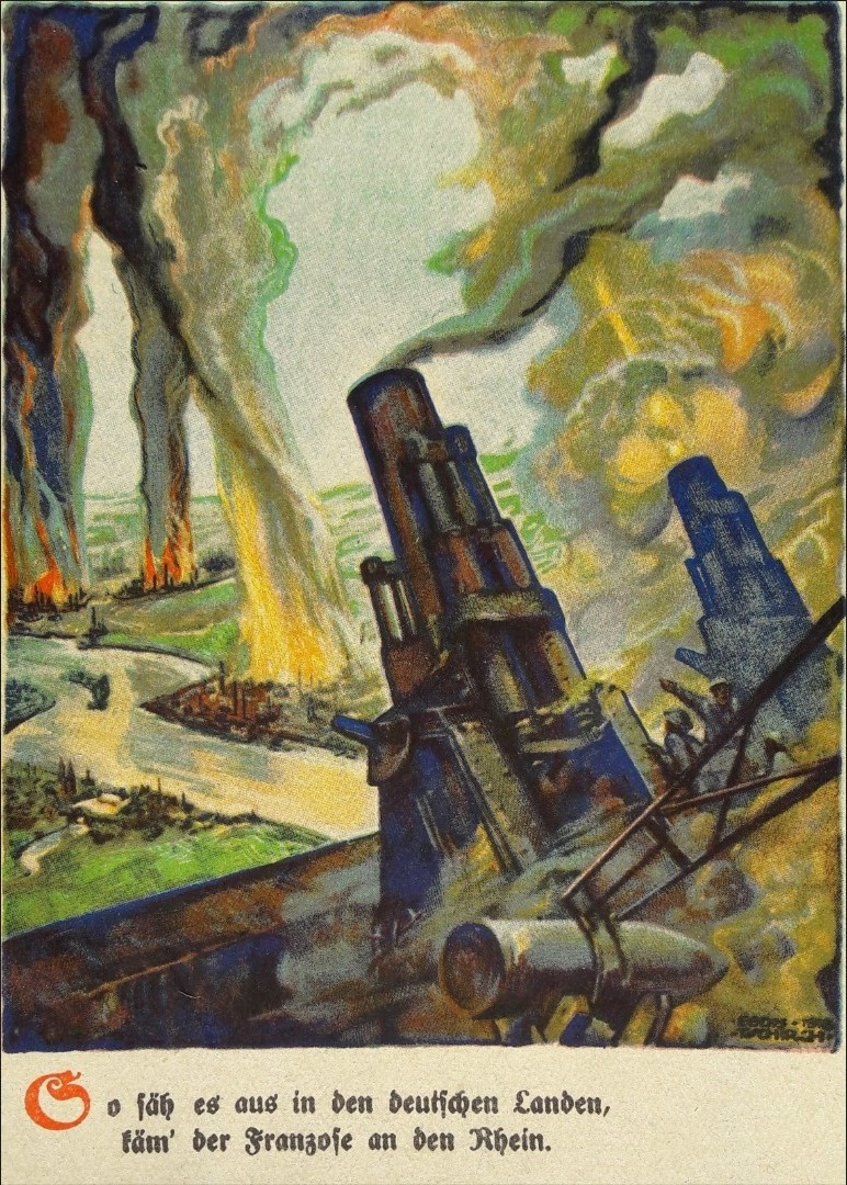 Propaganda in World War I German postcard 1918 "Was der Feind will I" - "what the enemy wants I" author: Egon Tschirch